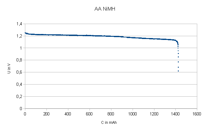 AA NiMH battery. Voltage as a function of capacity when delivered power was around 300 mW. Own measurements.